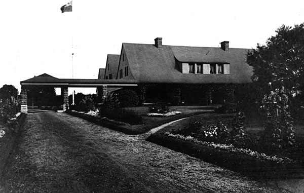 William Van Horne’s summer home: Covenhoven, ca. 1912. Provincial Archives of New Brunswick number P367-34.